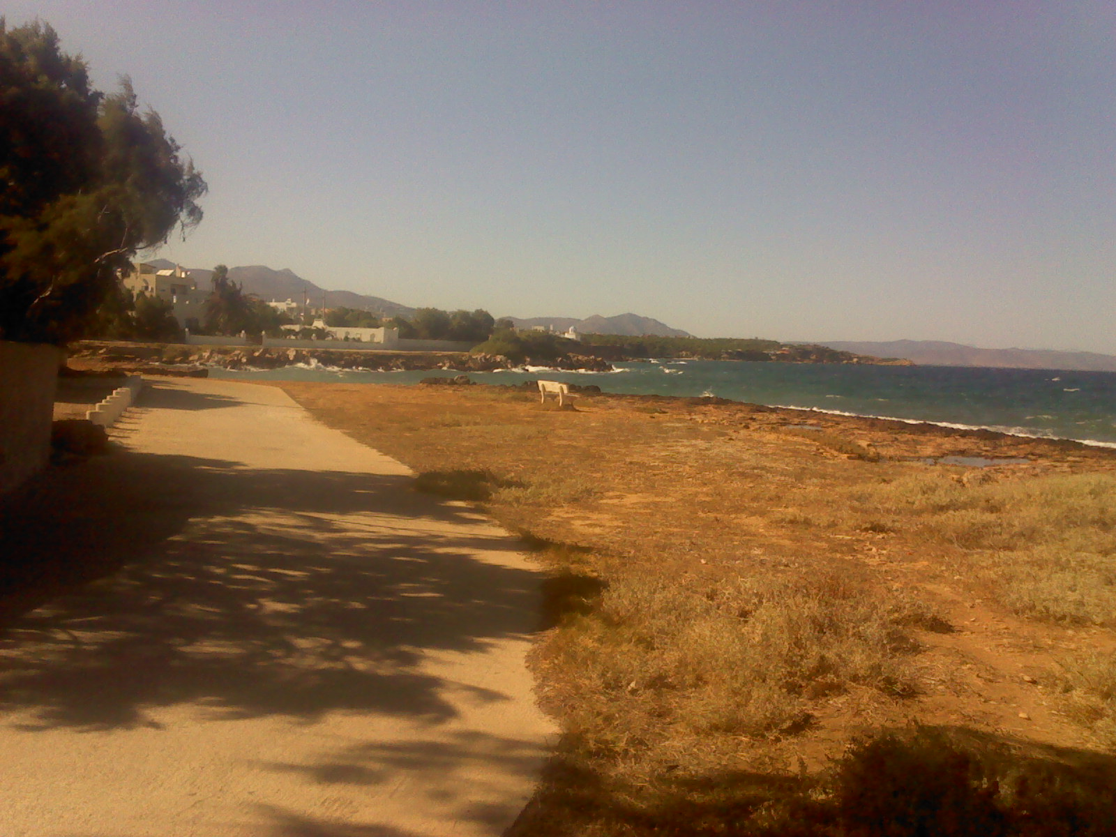 Seaside Agios Nikolaos Artemidas